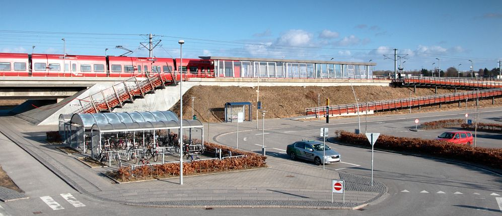 Egedal Station (prev. Gl. Toftegård Station) in Gl. Ølstykke, seen from the west